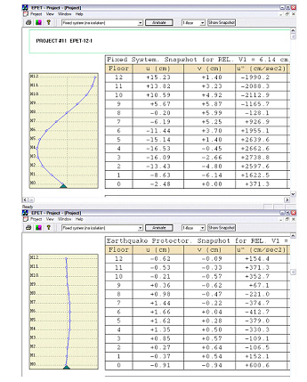 EPET enabled concurrent computational testing of two building models. Software called Earthquake Performance Evaluation Tool (EPET) enables various animated virtual experiments on building models with and without Earthquake Protectors [1]